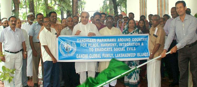 The unique Gandhian parikrama is flagged off by Lakshadweep’s Administrator Shri H Rajeish Prasad to spread Gandhian message in all the eleven islands of the UT.